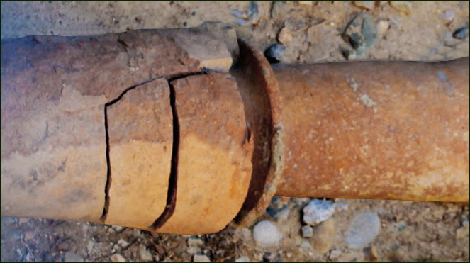 Detail of terracotta pipe junction at Knossos.